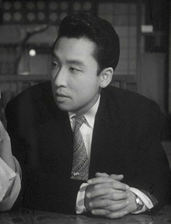 Studio still for 1954 Japanese movie The Woman in the Rumor (噂の女 Uwasa no Onna), featuring Tomoemon Ōtani VII (七代目大谷友右衛門).